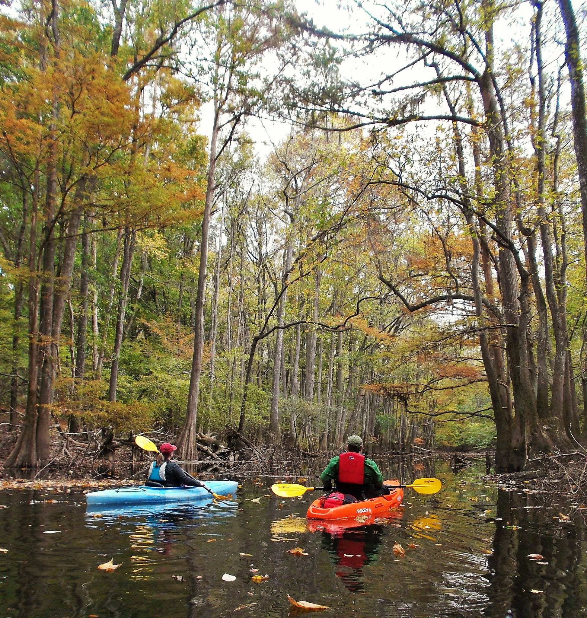 Kayakers paddling on Cedar Creek -- Autumn 2014